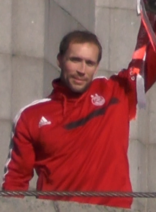 Aberdeen's Russell Anderson holds the Scottish League Cup 2014